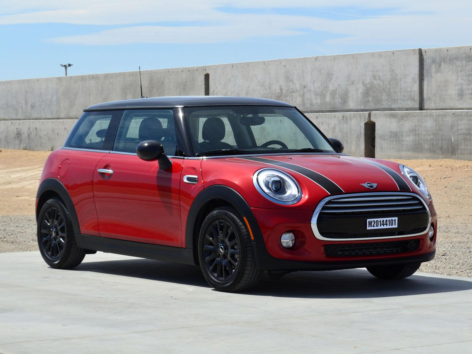 2014 MINI Cooper Hardtop, photographed in USA.